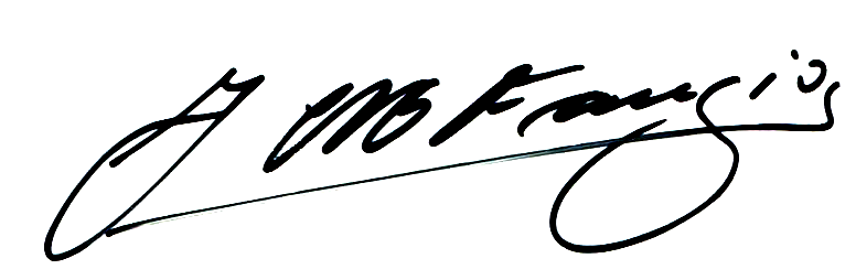 Juan Manuel Fangio signature.